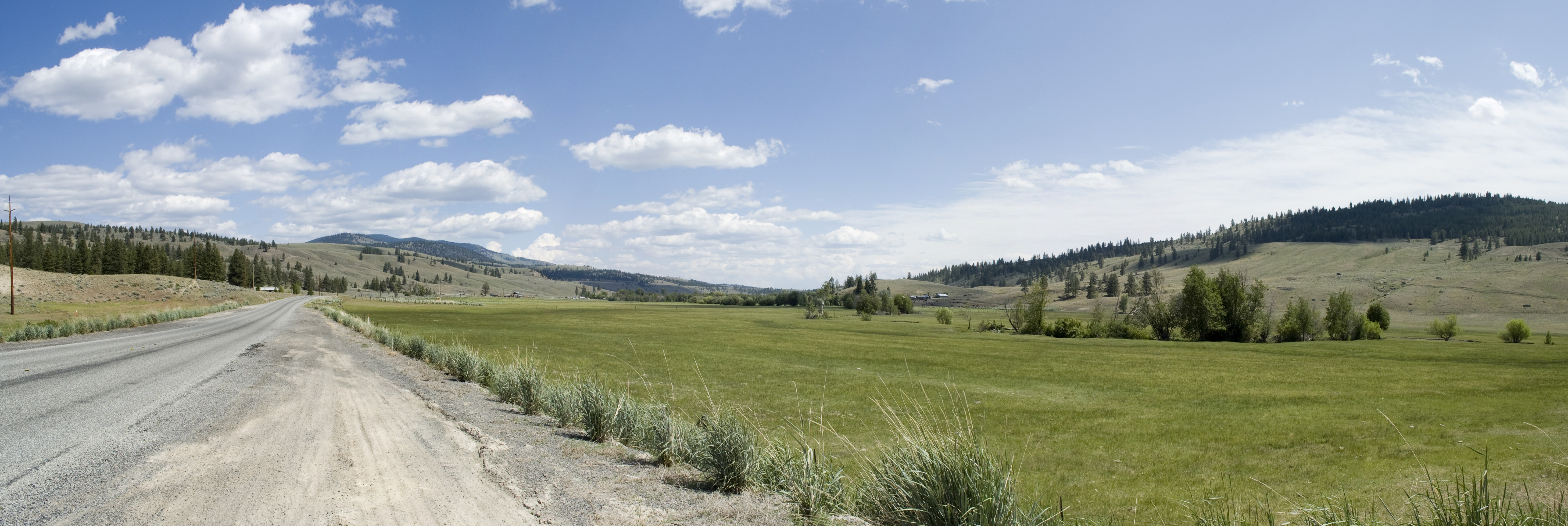 The Aneas Valley along SR 20.